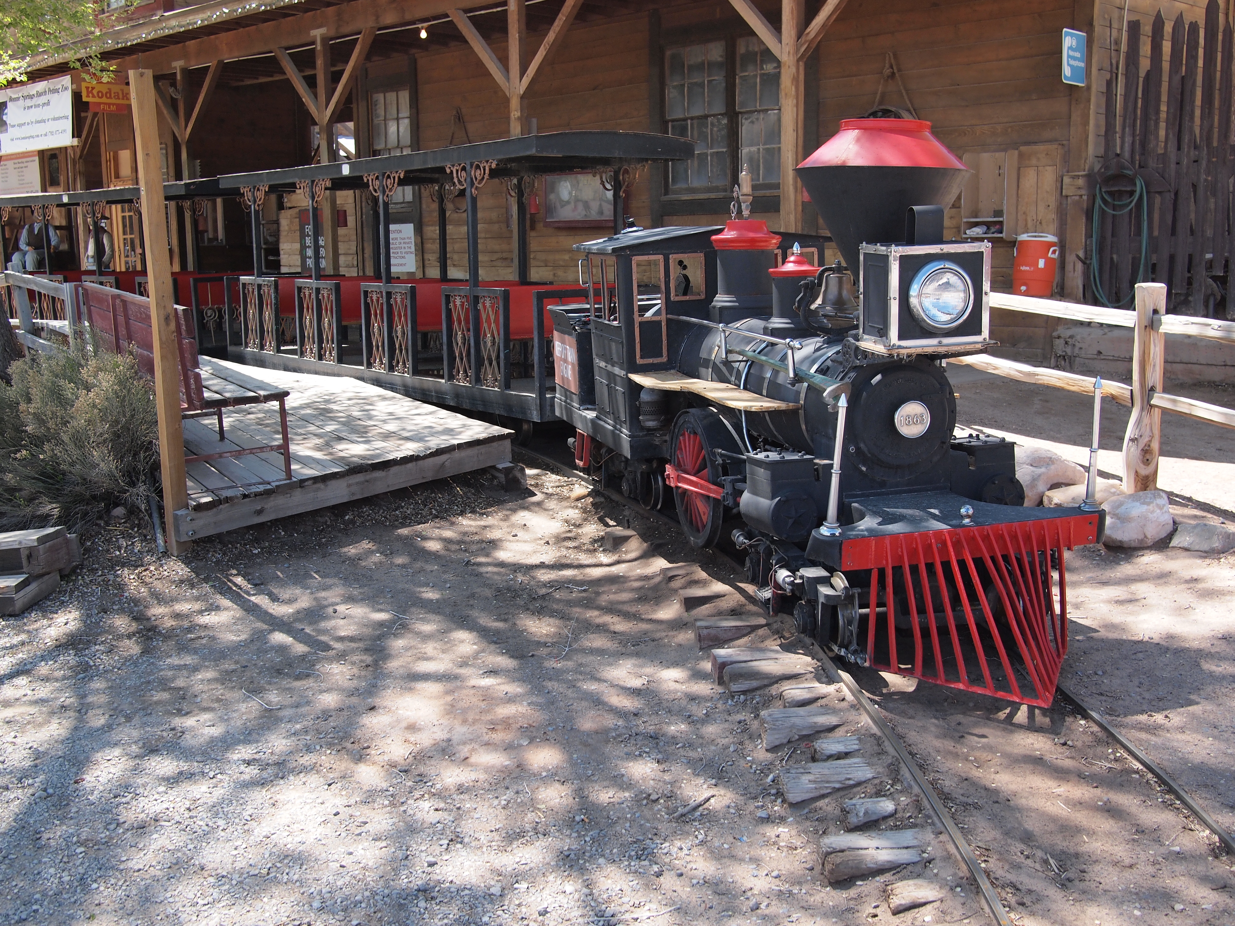 Miniature train ride at Bonnie Springs Ranch, near Las Vegas, Nevada.